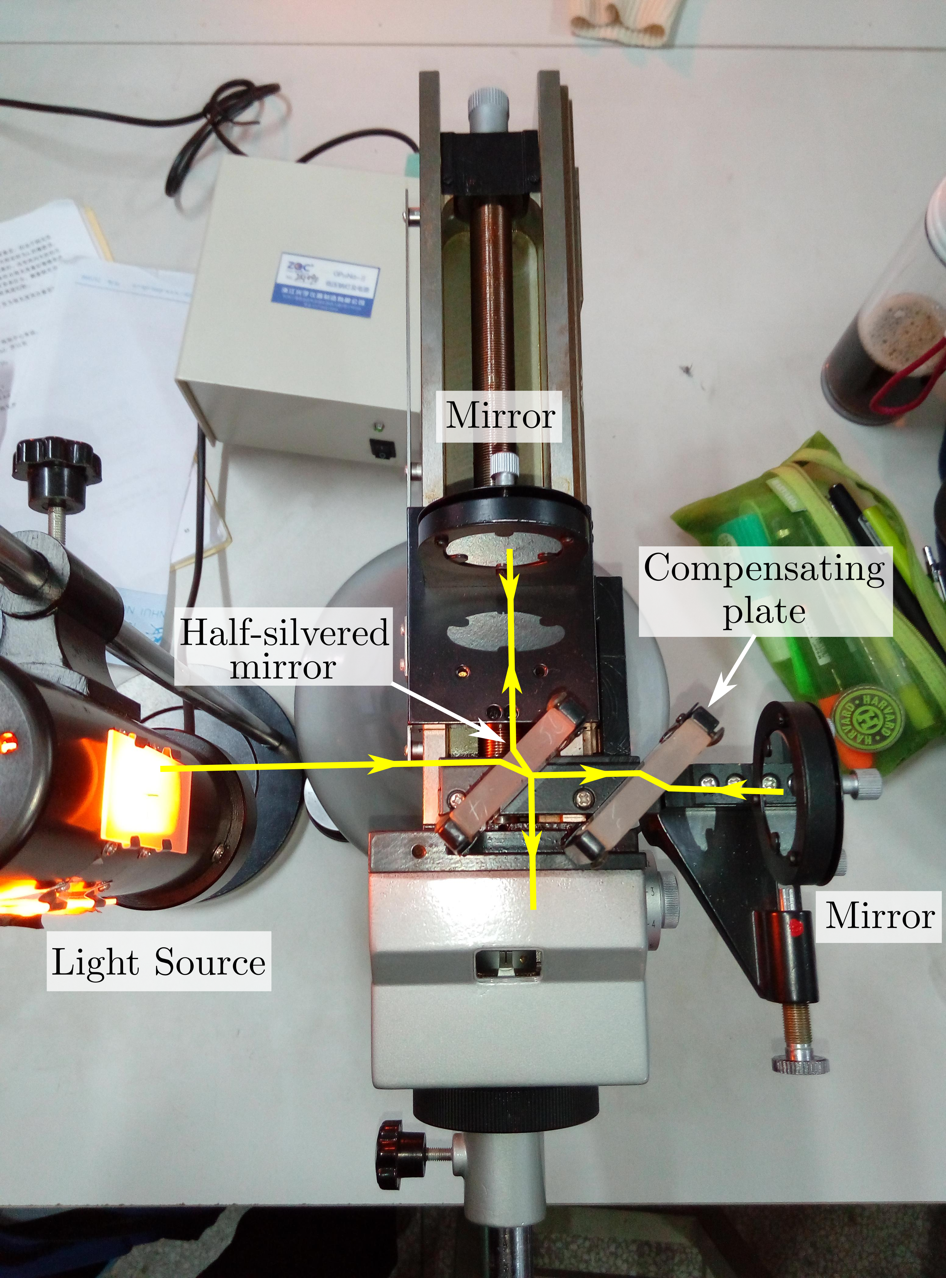 This image demonstrates a simple but typical Michelson interferometer.The bright yellow line indicates the path of the light.Photo was taken at the laboratory of physics of the Anhui Normal University.